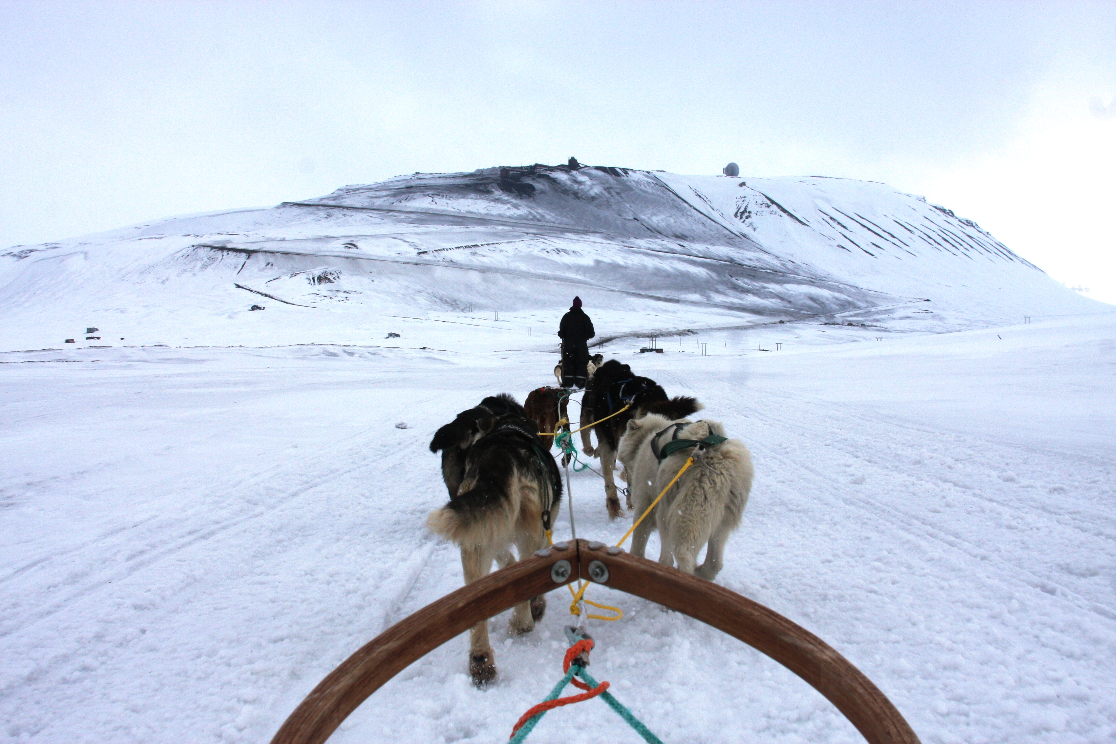 Greenland Dog trecking in Advent Valley, east of Longyearbyen.